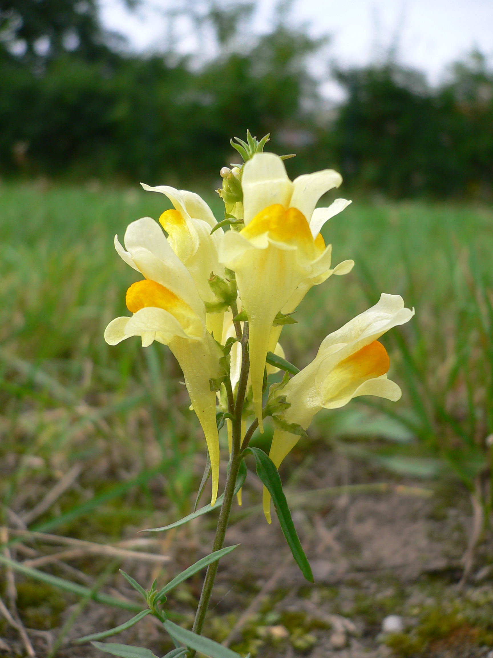 Linaria vulgaris, Germany